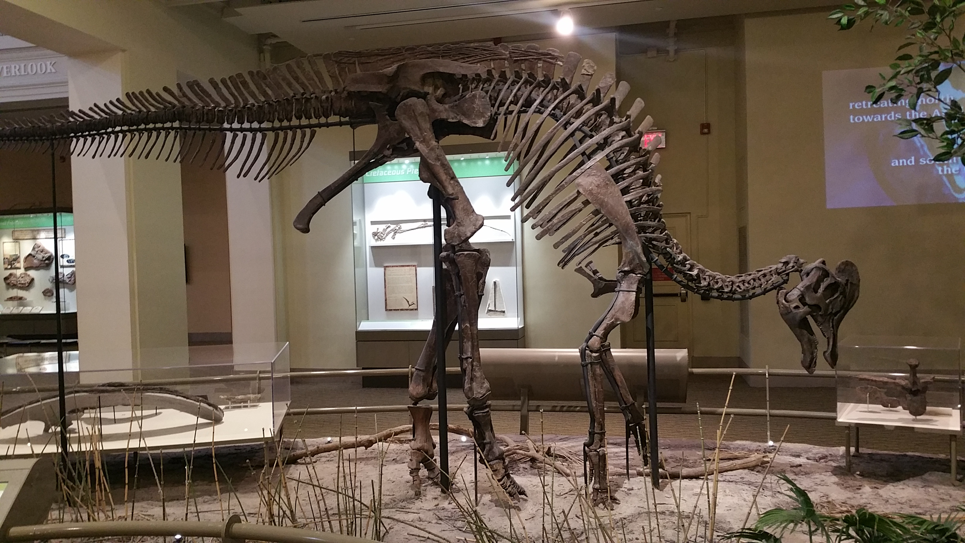 The "Dinosaurs in Their Time" exhibit at the Carnegie Museum of Natural History. Pictures from some of my free time during the Project Zero Perspectives conference (#PZPGH) in Pittsburg, Pennsylvania - May 2017.